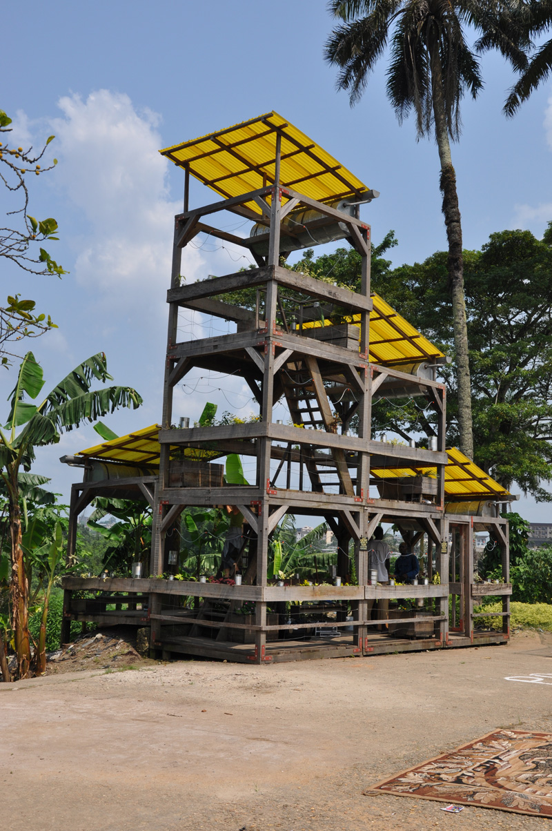 Lucas Grandin, Le jardin sonore de Bonamouti, Bonamouti, Douala, 2010. Commissioned and produced by doual'art for SUD-Salon Urbain de Douala 2010. Photo by Lucas Grandin. A four floors structure irrigated by a system which collects water from the rain and it distributes it drop by drop to irrigate a botanical garden. The drops fall into small metallic cans and they produce an harmonic sound.